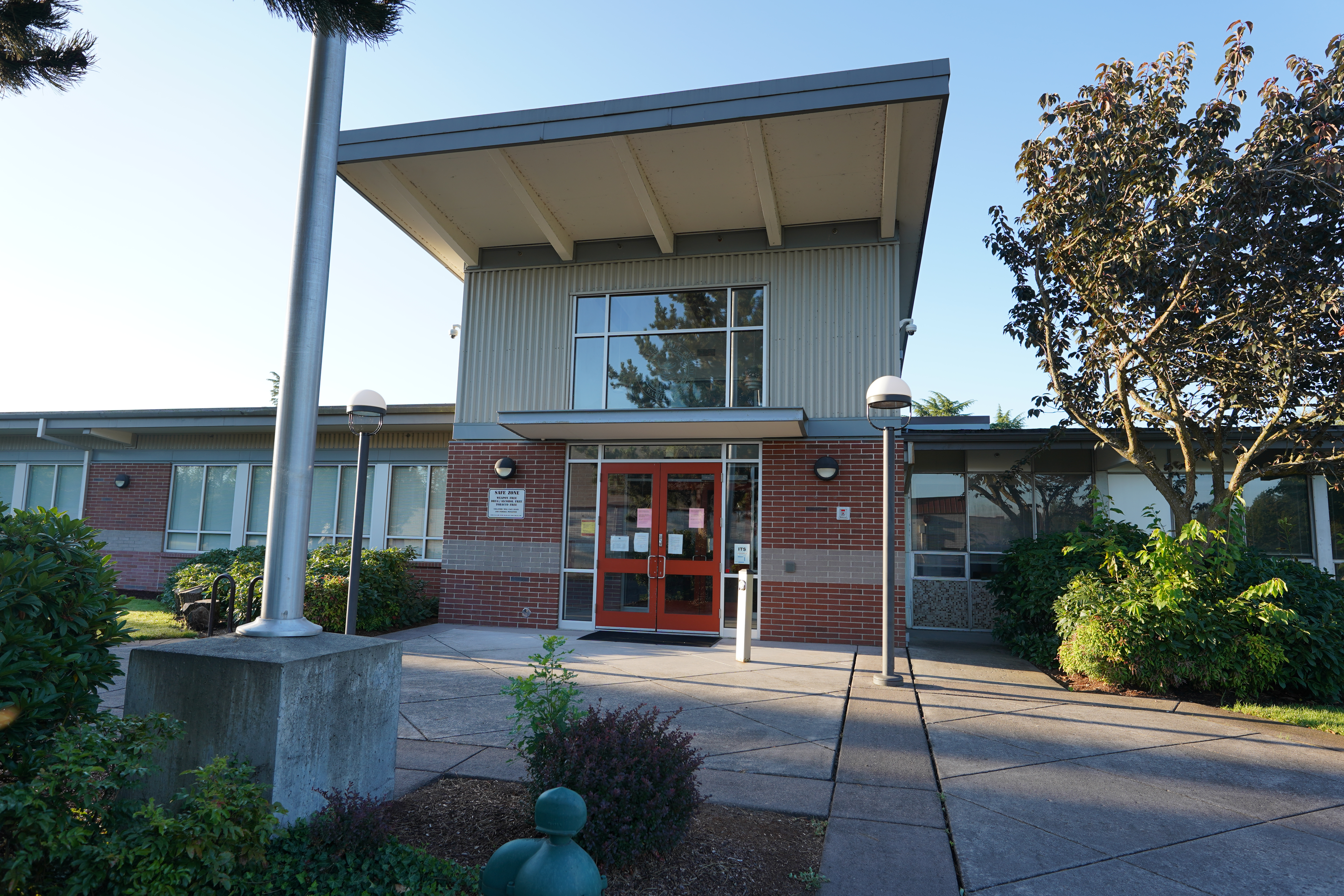 Image is the main entrance of the Vancouver Public Schools Administrative Services building. Photograph taken on 2020-07-19T13:57Z.